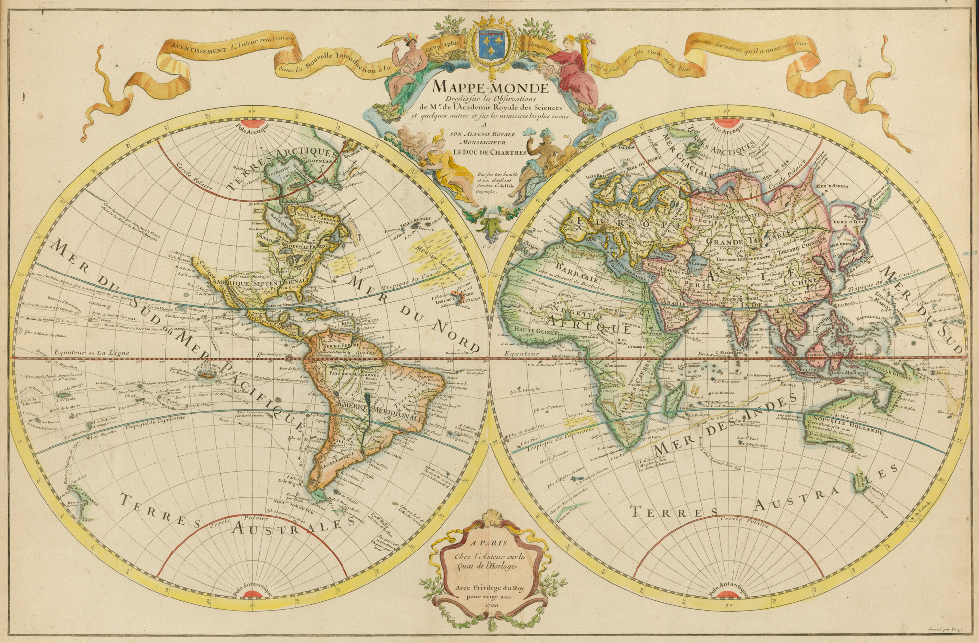 Mappe-Monde by Guillaume Delisle, corrected version (after 1707) of the 1700 map, Paris, France.